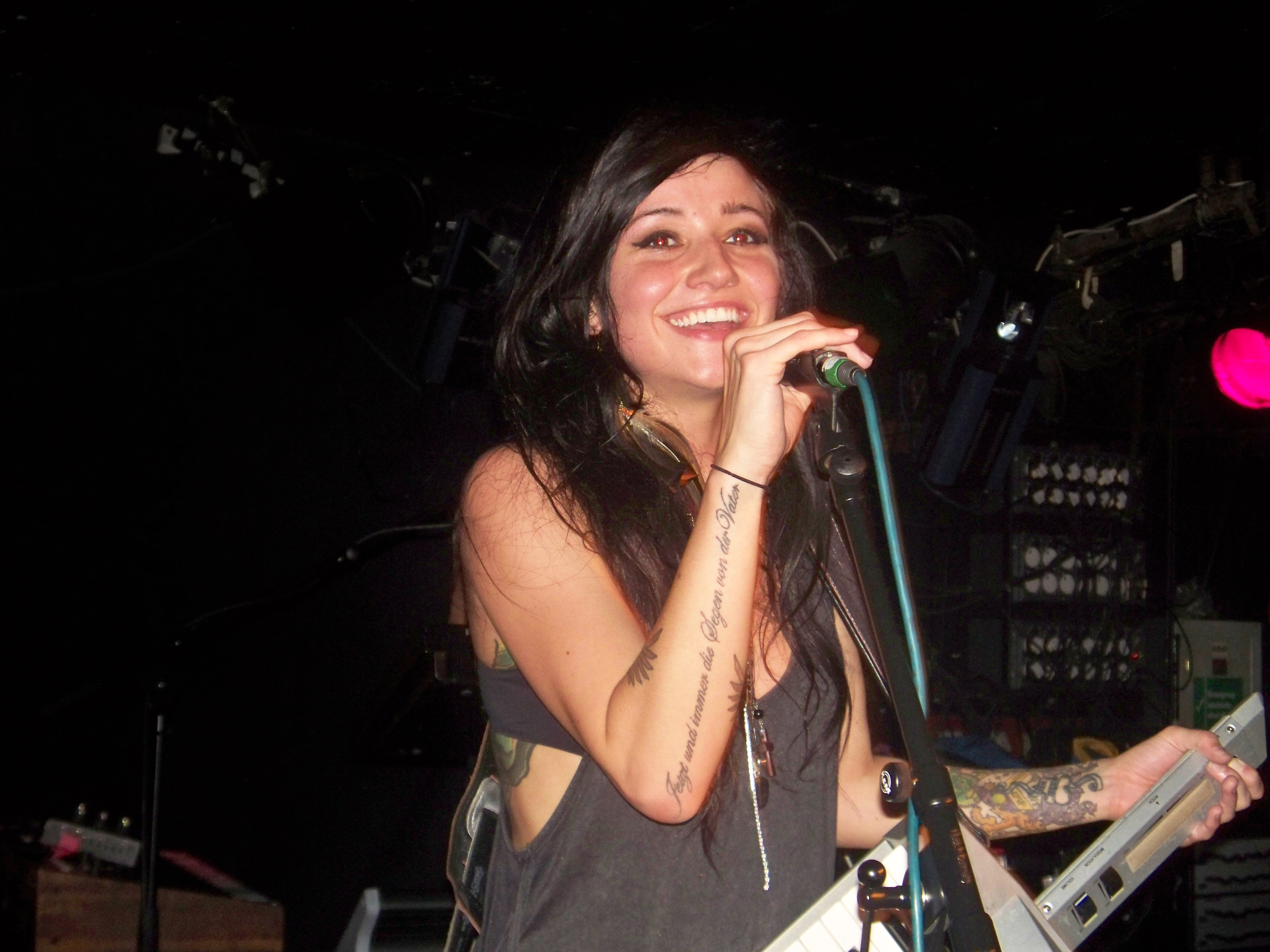 LIGHTS performing in King Tut's Wah Wah Hut, May 20th 2010.